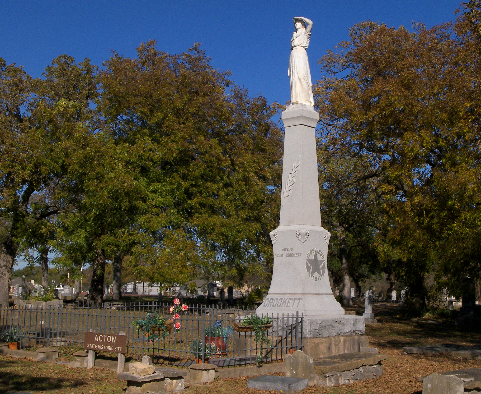 Memorial to Elizabeth Patton Crockett, second wife of Davy Crockett, at the Acton State Historic Site in Acton, Texas, United States.